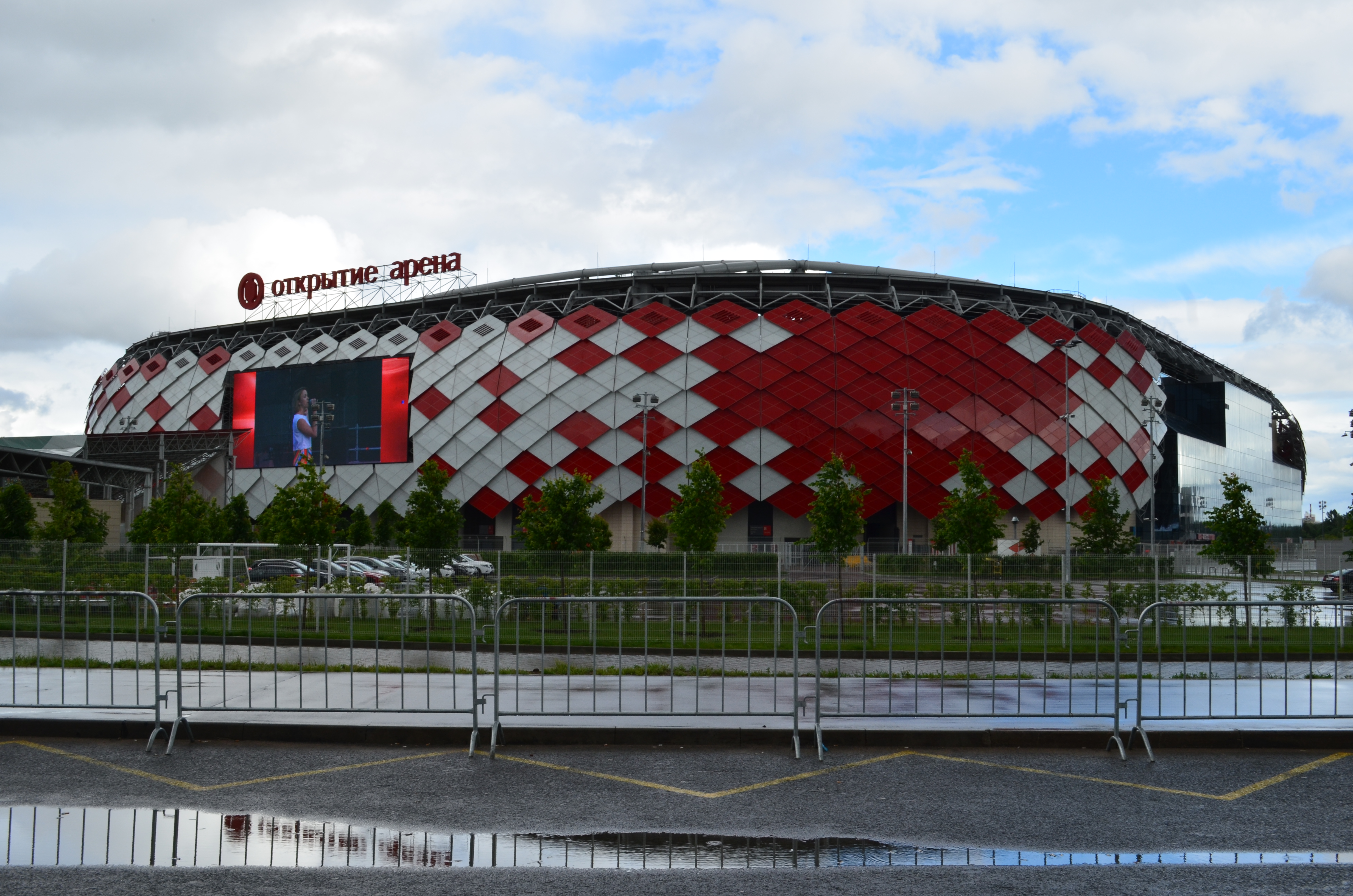 Otkrytiye Arena Stadium in Moscow